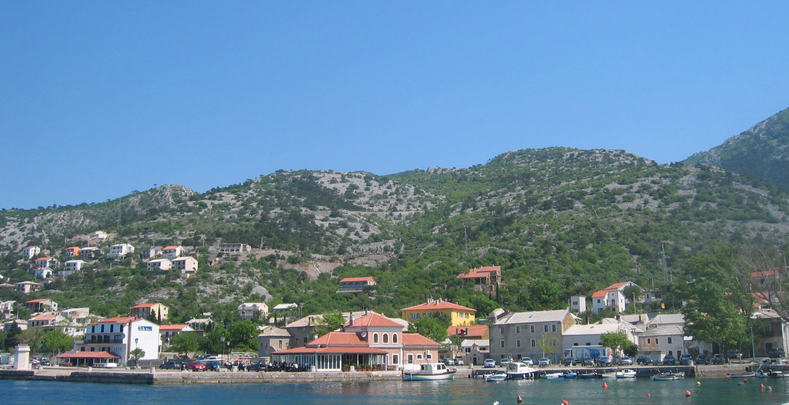 St. Juarj, town in Croatian northern coast area